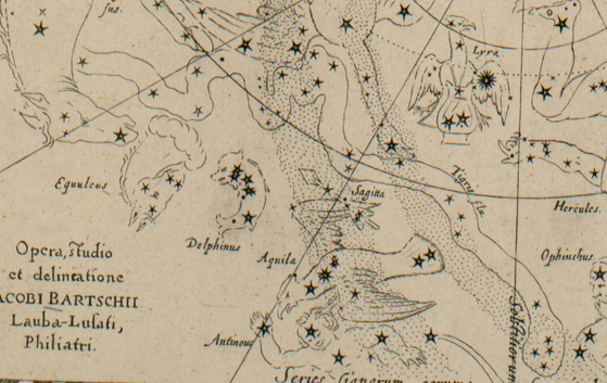 Tigris